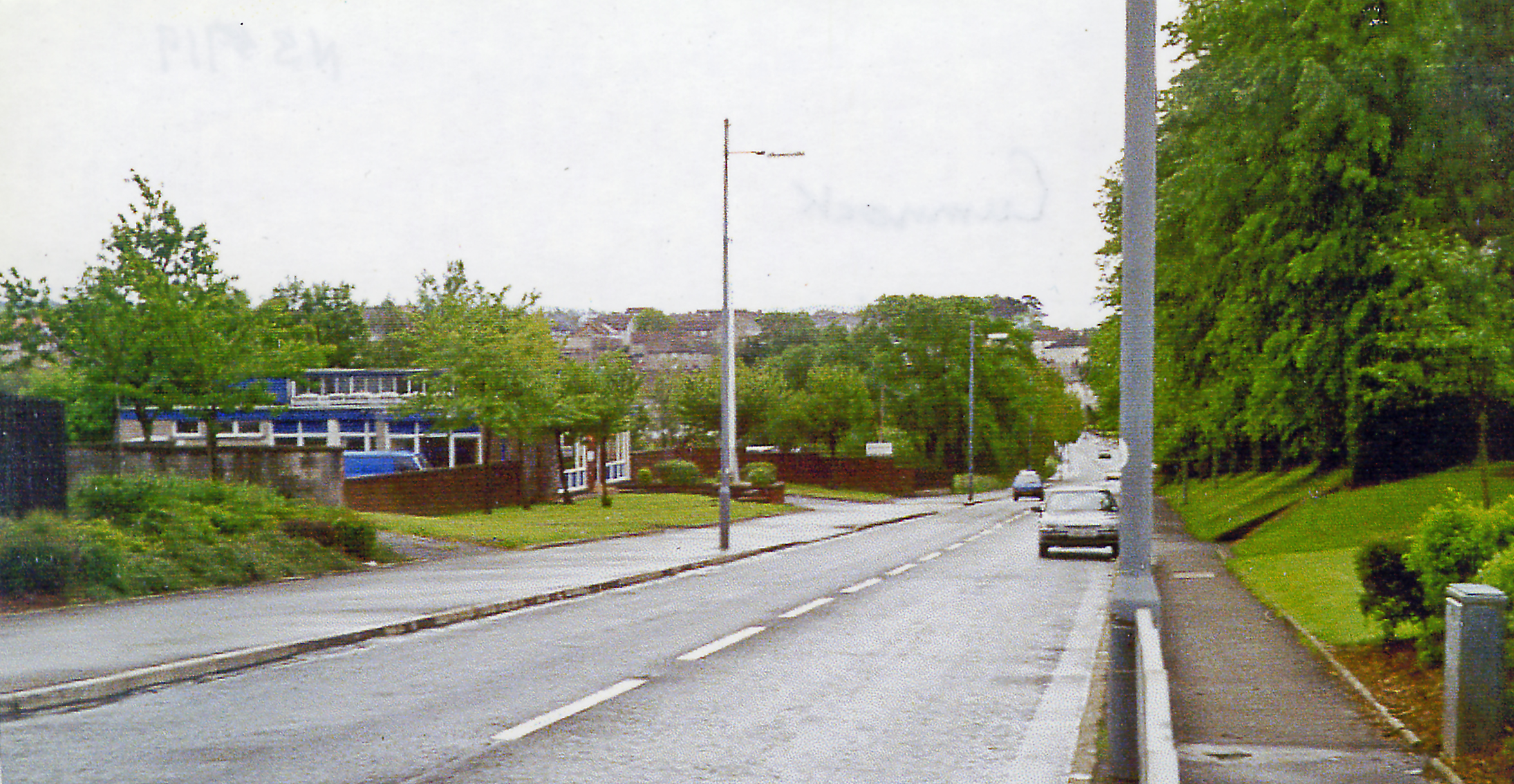 Site of Cumnock station. View SE on the A76 leaving Cumnock, where the ex-Glasgow & South Western line from Ayr via Annbank and Drongan (to the right) - (to the left) Cronberry and Muirkirk used to cross by an overbridge. The station had been on the right: it was closed along with the line Annbank - Drongan - Cronberry from 10/9/51 to passengers, 1/7/59 to goods.